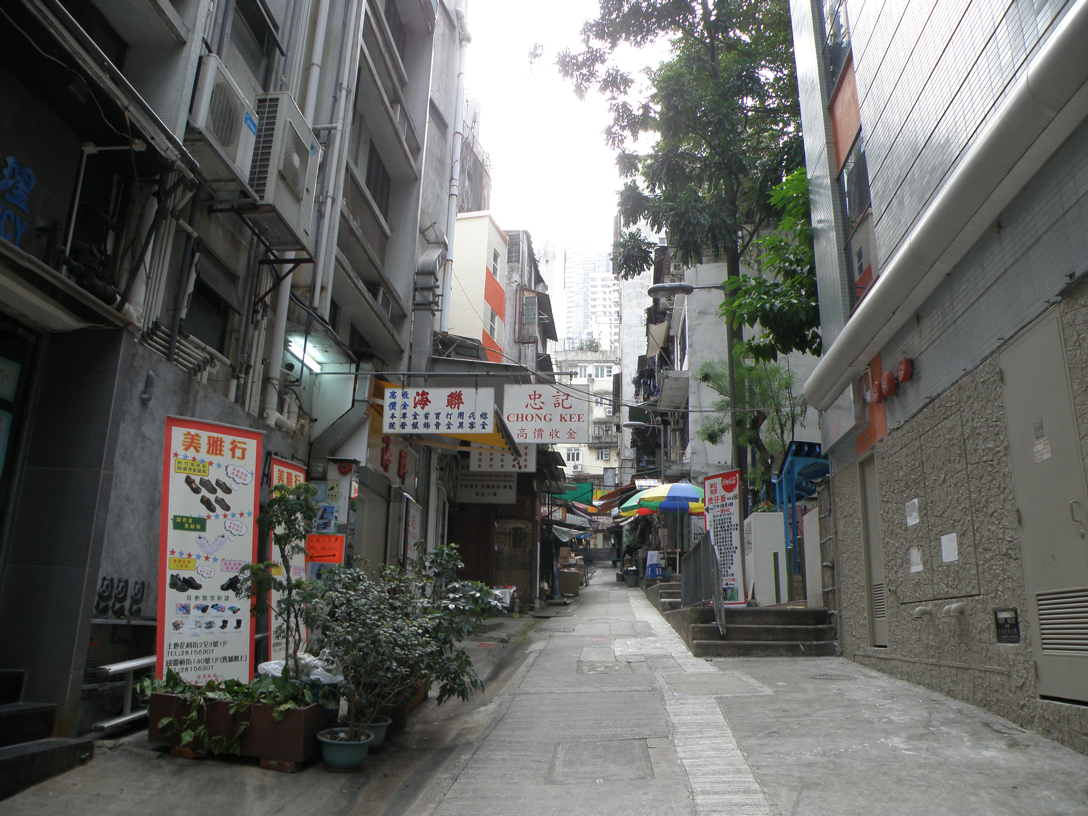 Staveley Street in Central, Hong Kong.